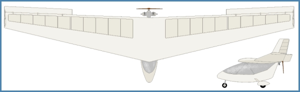 Mitchell B10 flying wing